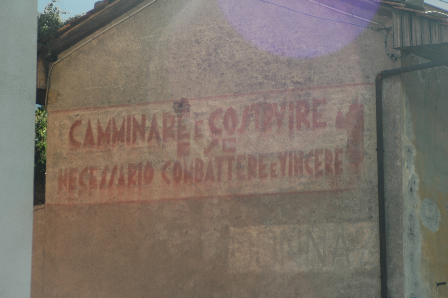 Fascist motto in Donnas (Aosta Valley - Italy): CAMMINARE E COSTRUIRE E SE NECESSARIO COMBATTERE E VINCERE